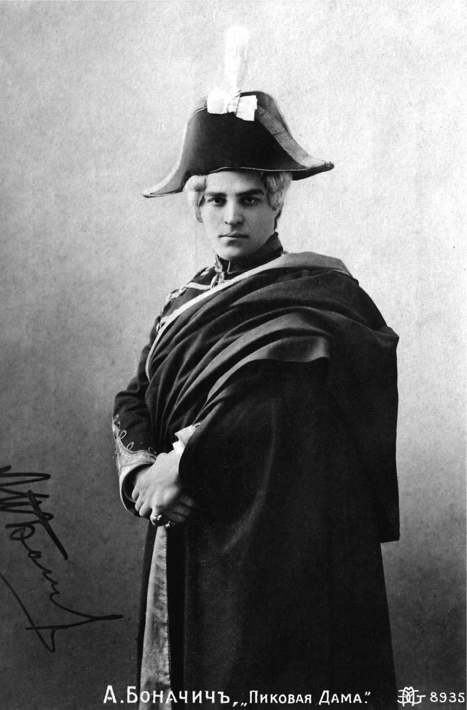 Anton Bonachich. "The Queen of Spades", the opera by Tchaikovsky